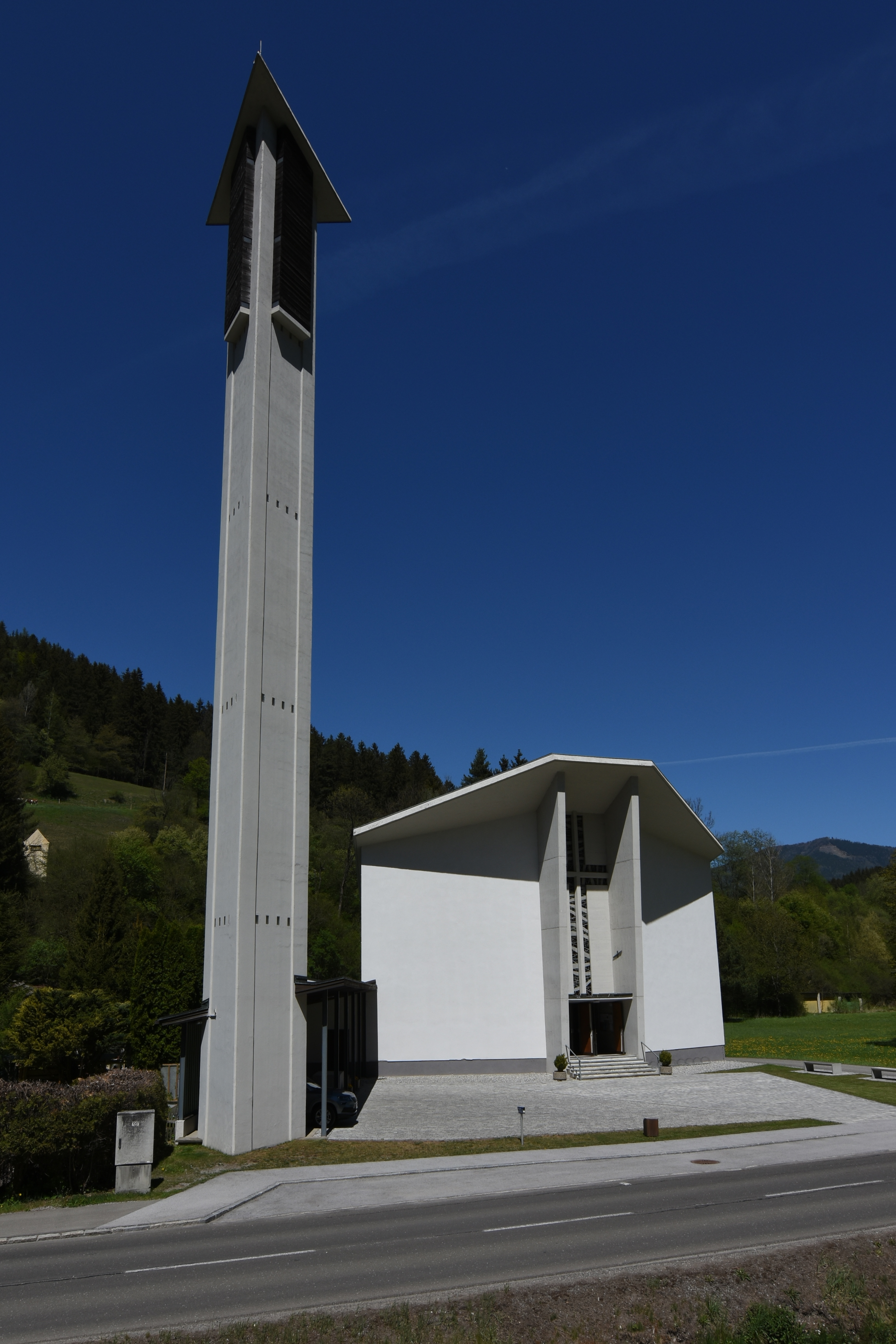 Church